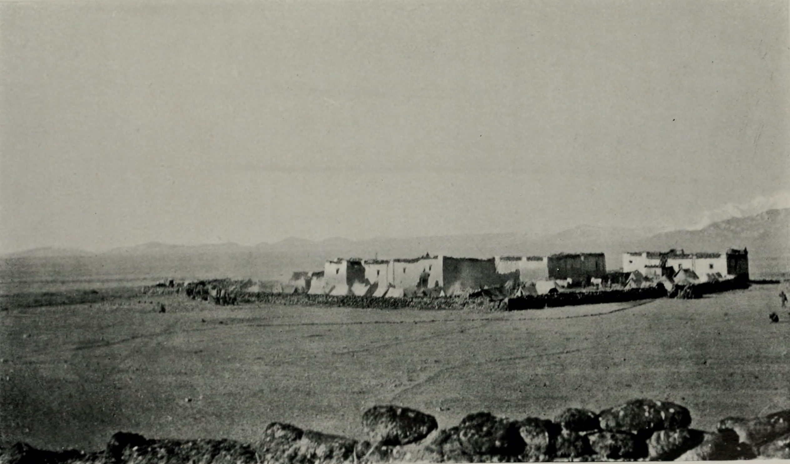 Tuna Village in Yatung, Tibet c. 1904.